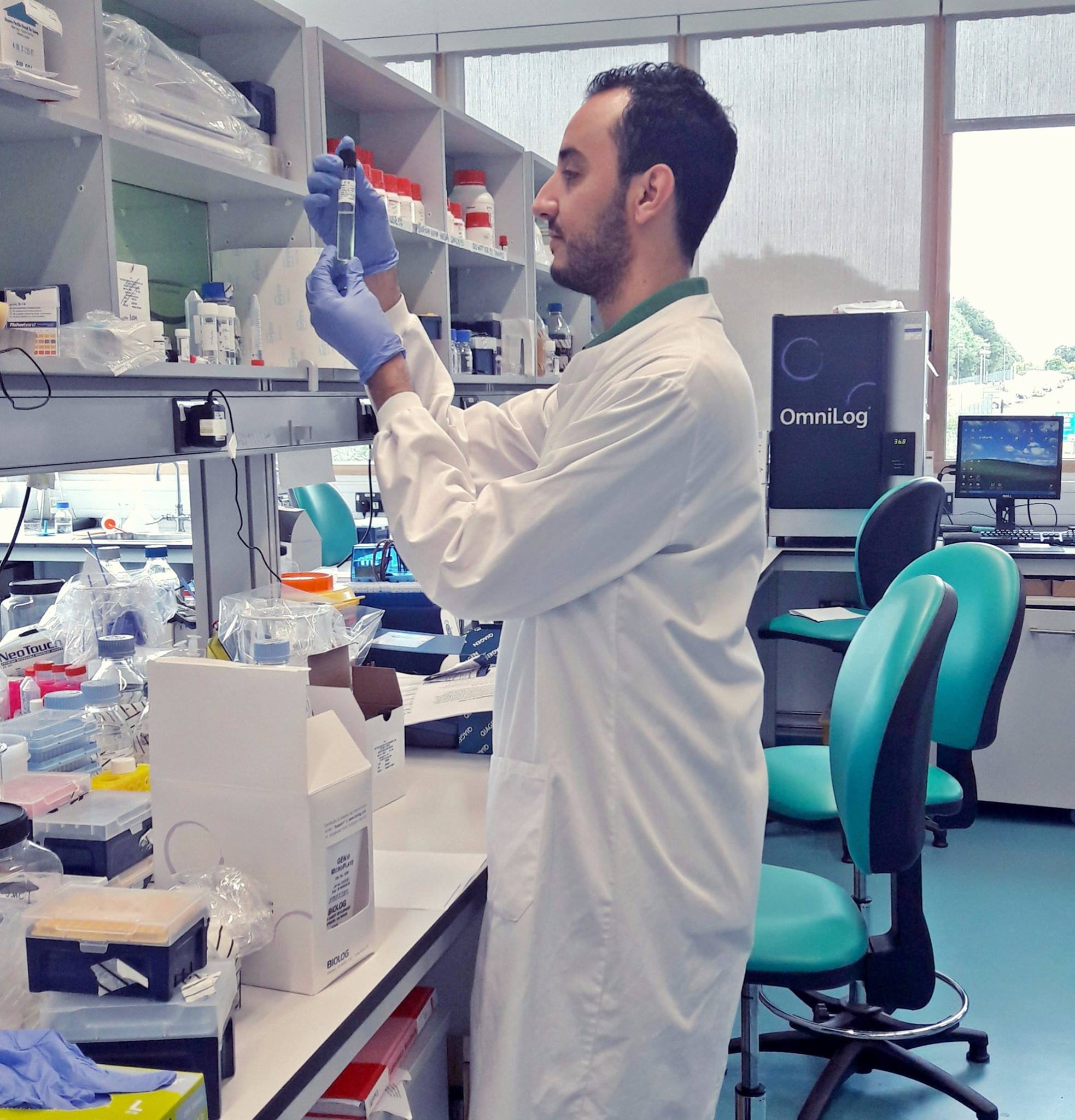 Norwich Medical School, United Kingdom